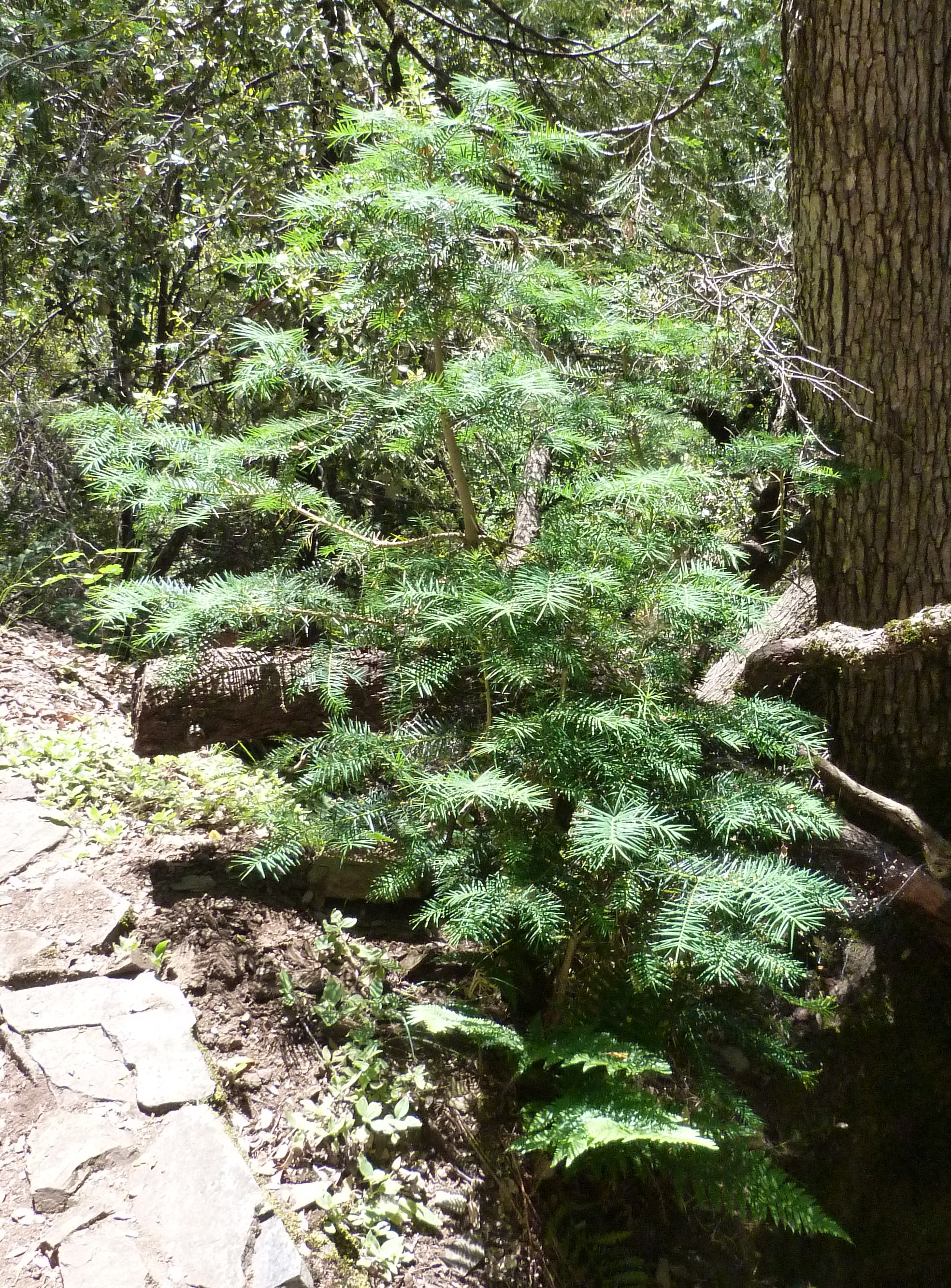 California Torreya Torreya californica, Crystal Cave trail, Sequoia National Park, California, USA.